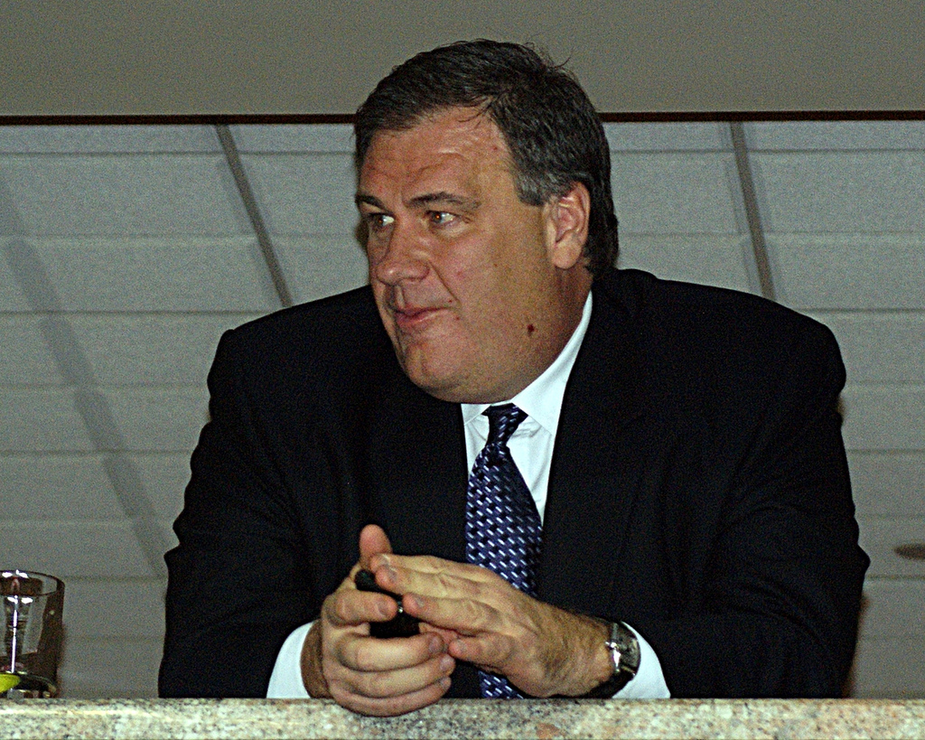 N. Murray Edwards watches the Calgary Flames from the owner's box in the Scotiabank Saddledome. N. Murray Edwards, born December 10, 1959 Regina, Saskatchewan, is owner and President of Edco Financial Holdings Ltd., a Calgary based management firm since 1988. He is a leading investor in, and managing director and chairman or vice chairman of, numerous Canadian publicly traded companies including Canadian Natural Resources Limited, Ensign Energy Services Inc., and Magellan Aerospace Corporation. Today, these companies employ over 15,000 individuals. He is also a chairman, director and co-owner of the Calgary Flames Hockey Club of the National Hockey League.